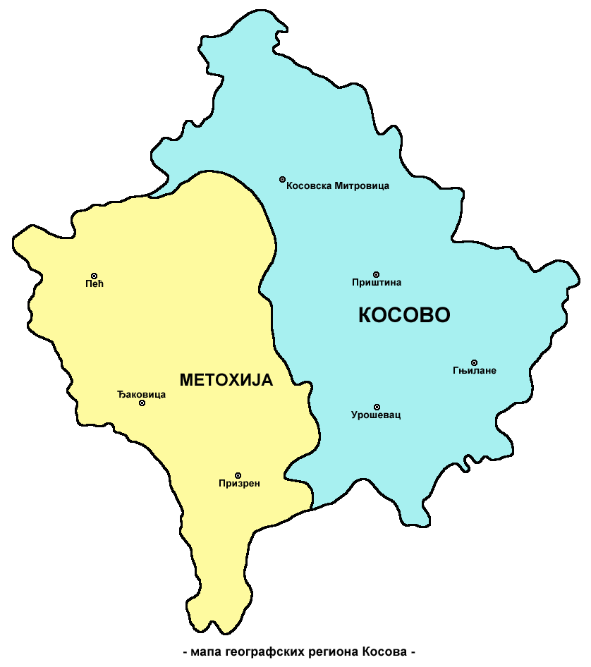 Map of geographical regions of Kosovo - Kosovo (proper) and Metohija - Serbian language Cyrillic script version. Serbian: Мапа географских региона Косова - (ужег) Косова и Метохије - ћирилична верзија на српском језику.